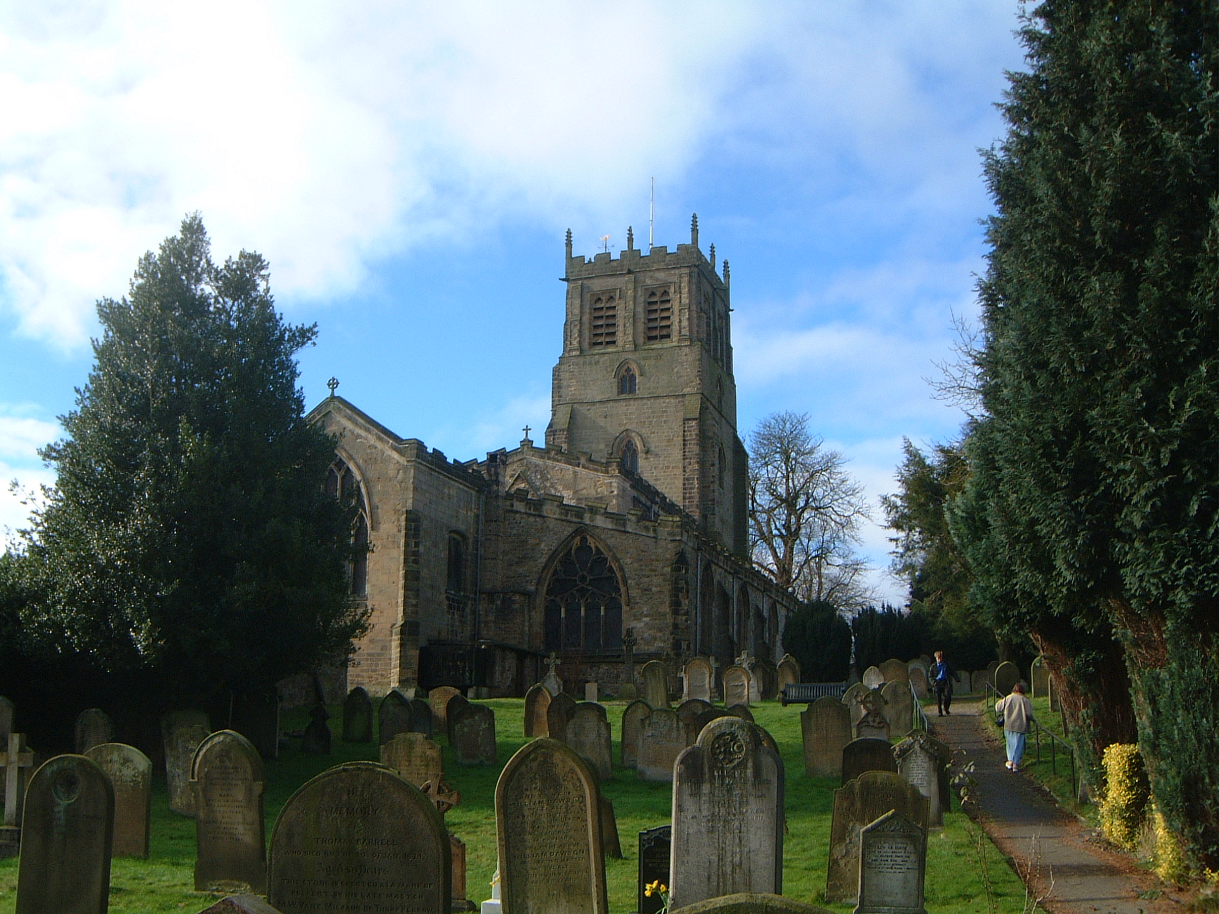 St Gregory's parish church, Bedale, North Yorkshire, seen from the east